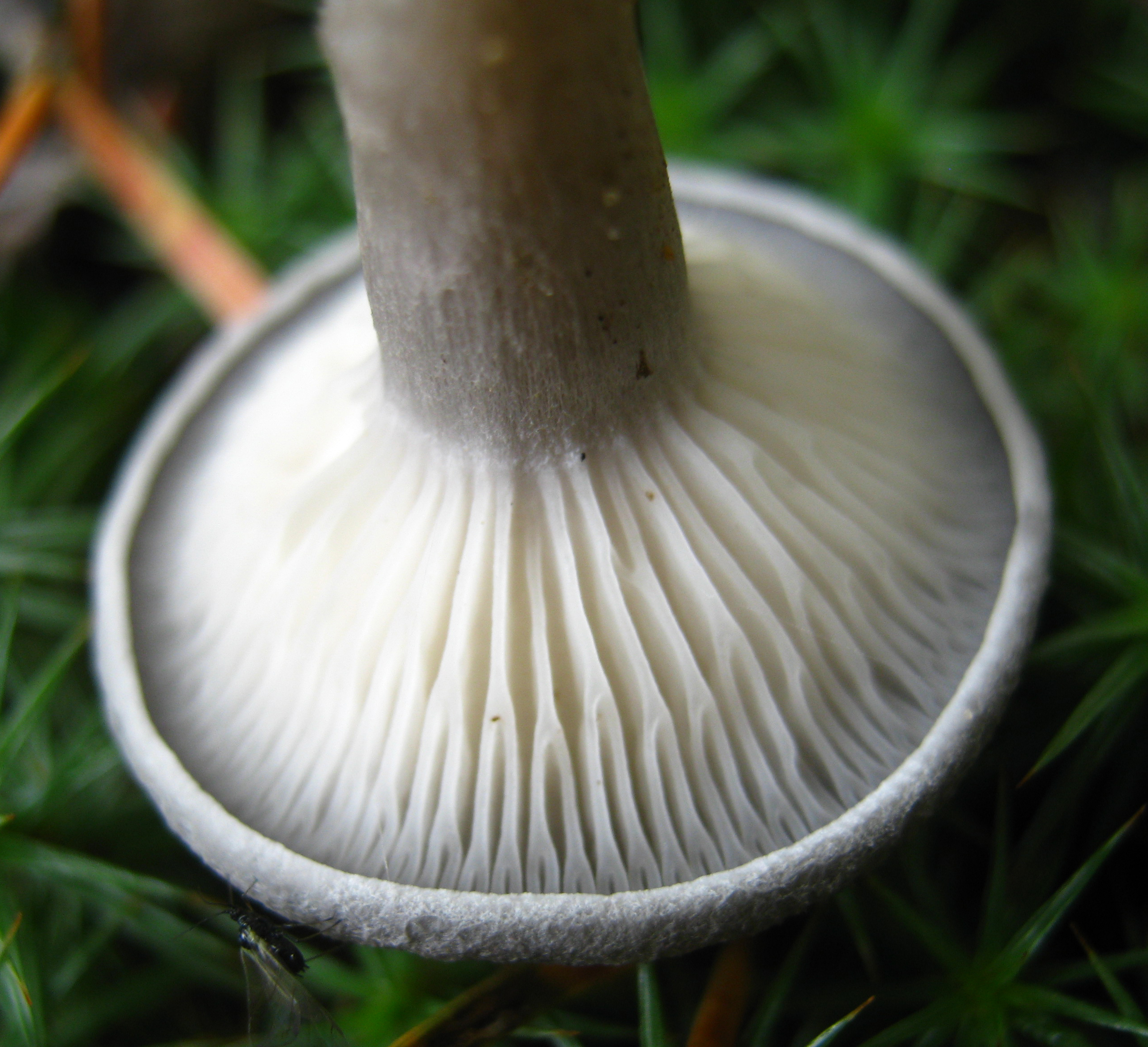 The gills of the mushroom Cantharellula umbonata (J.F.Gmel.) Singer. Photographed in Forest near Elgin St., Pembroke, Ontario, Canada.